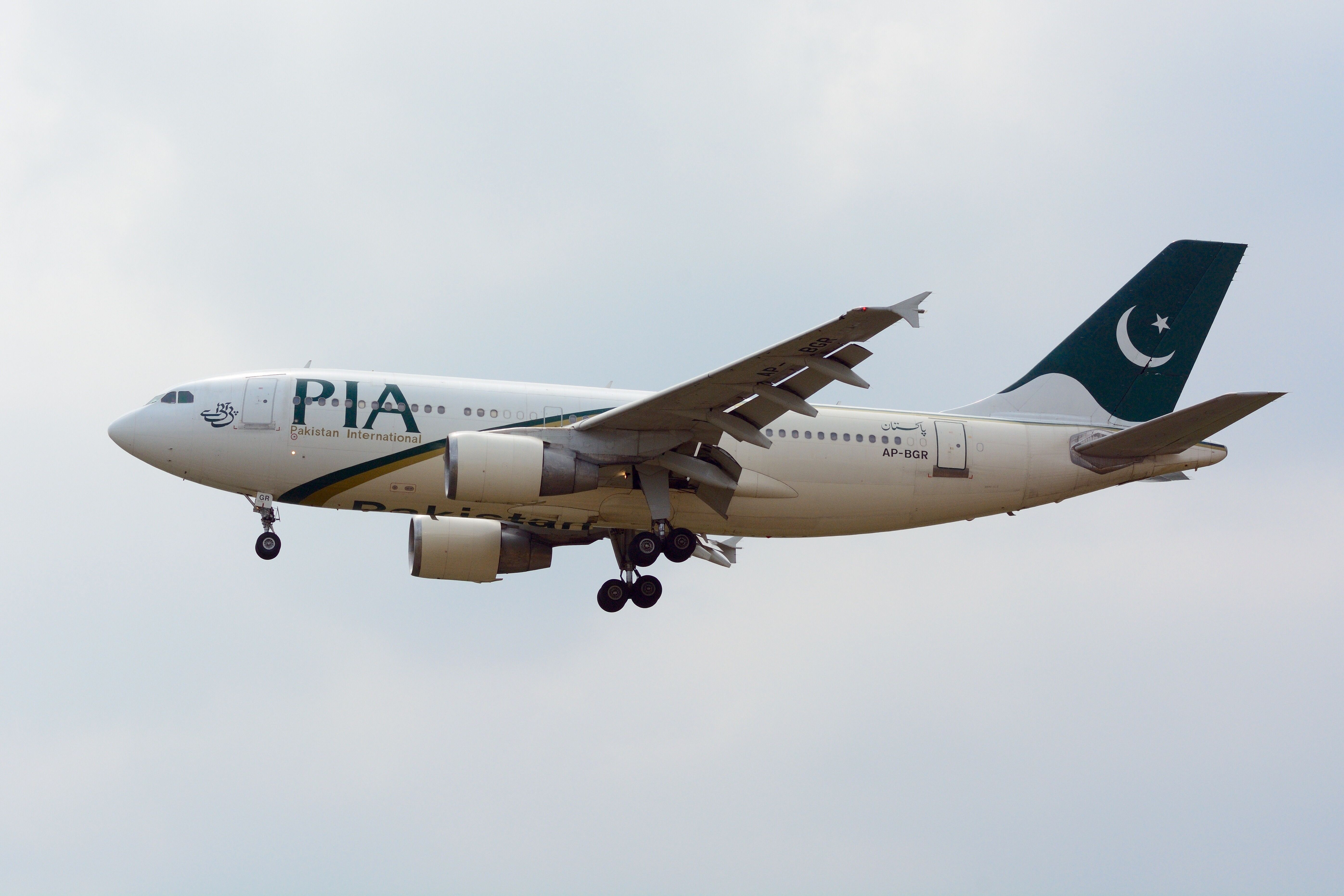 Pakistan International Airlines, Airbus A310-300 AP-BGR NRT